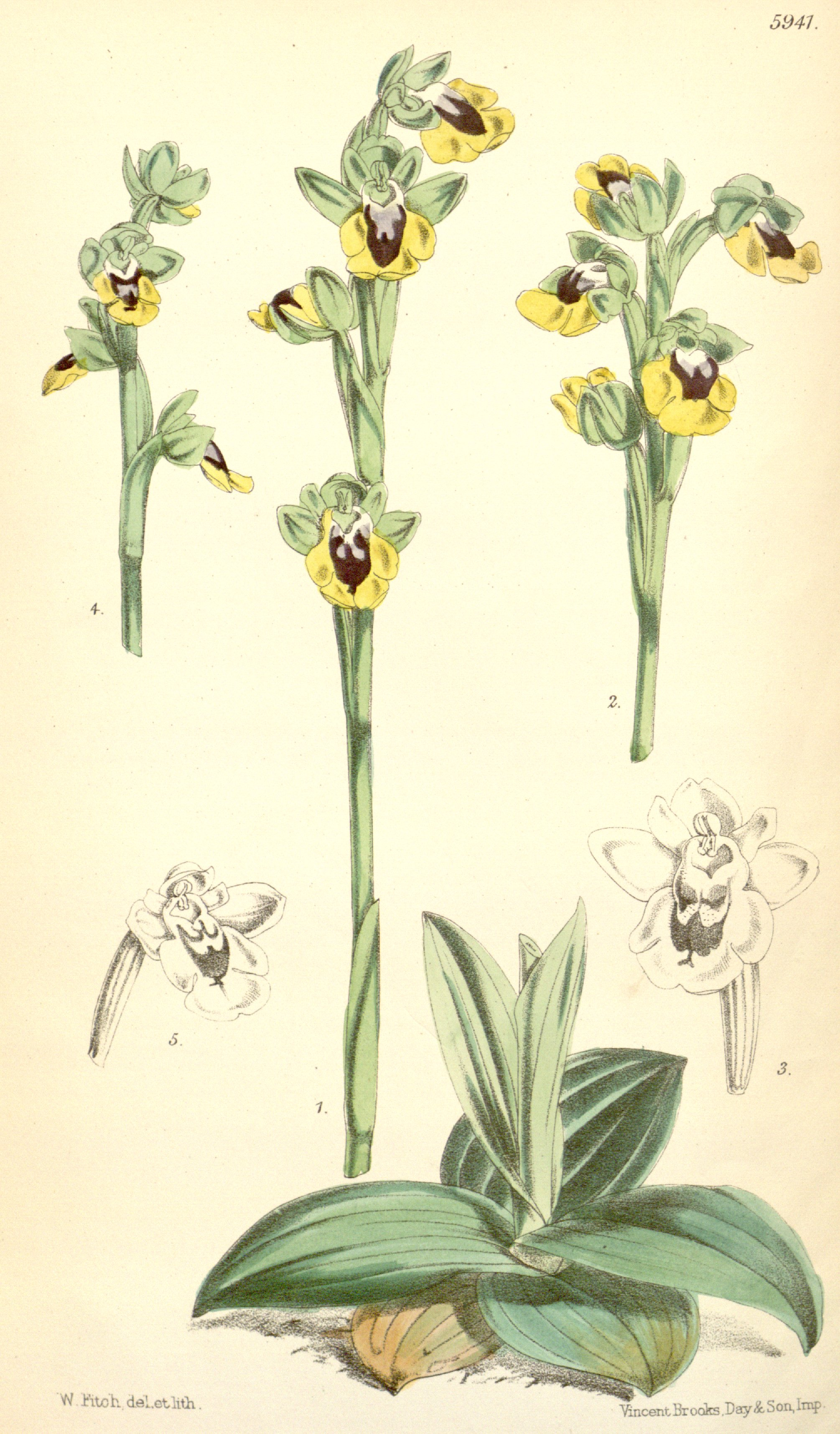 Illustration of Ophrys lutea